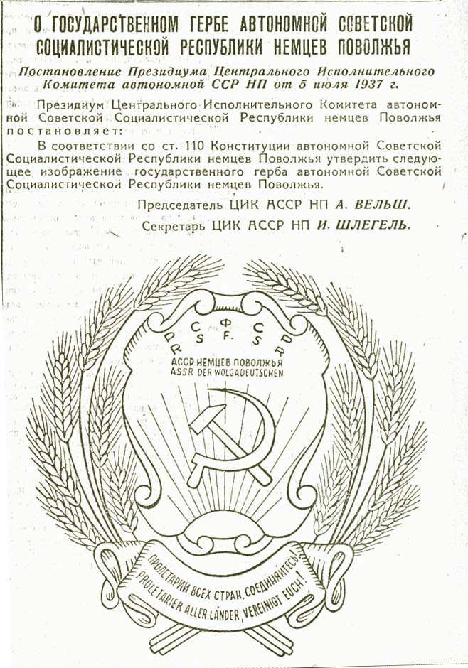 The official design of the emblem of the Volga German ASSR (1937-1941)